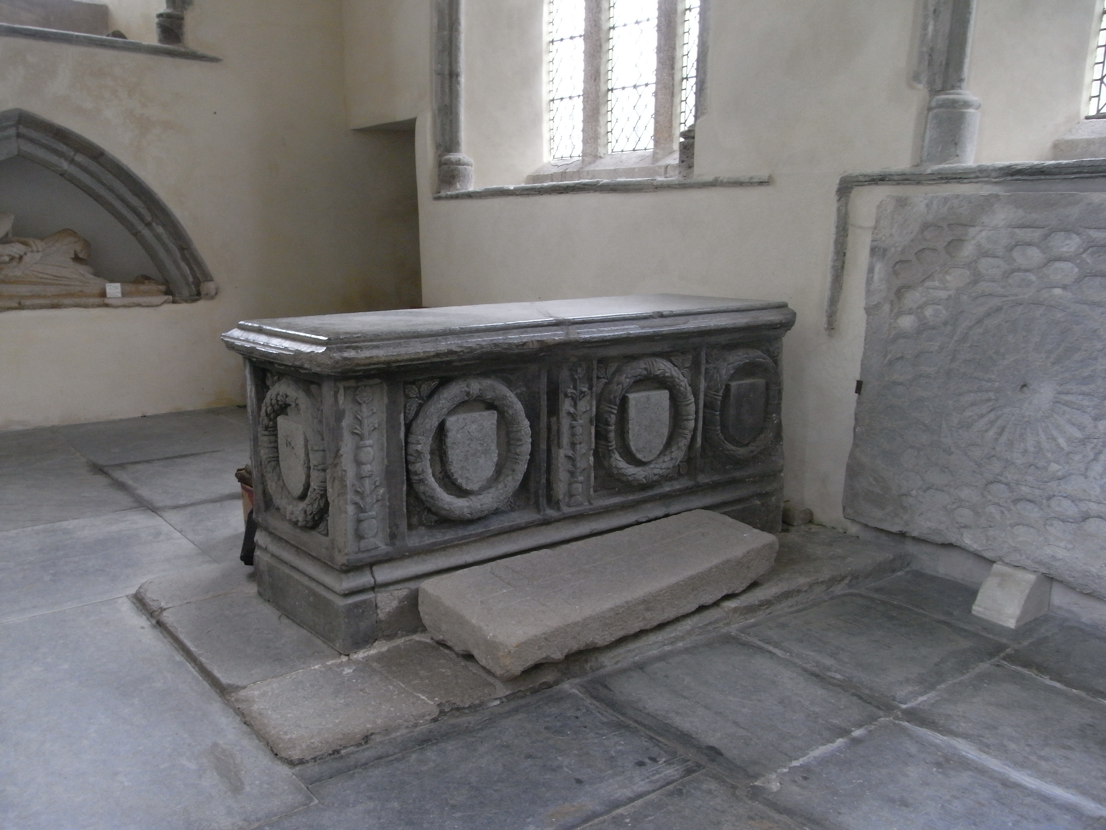 Chest tomb, Bere Ferrers. Believed to be that of the 2nd Baron Willoughby de Broke